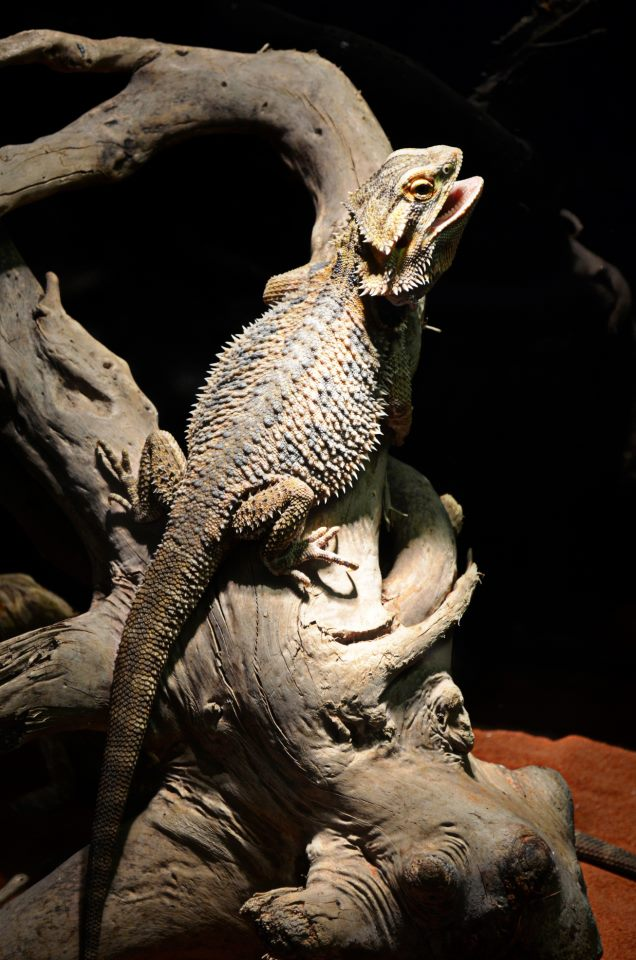 Central bearded dragon in a tree